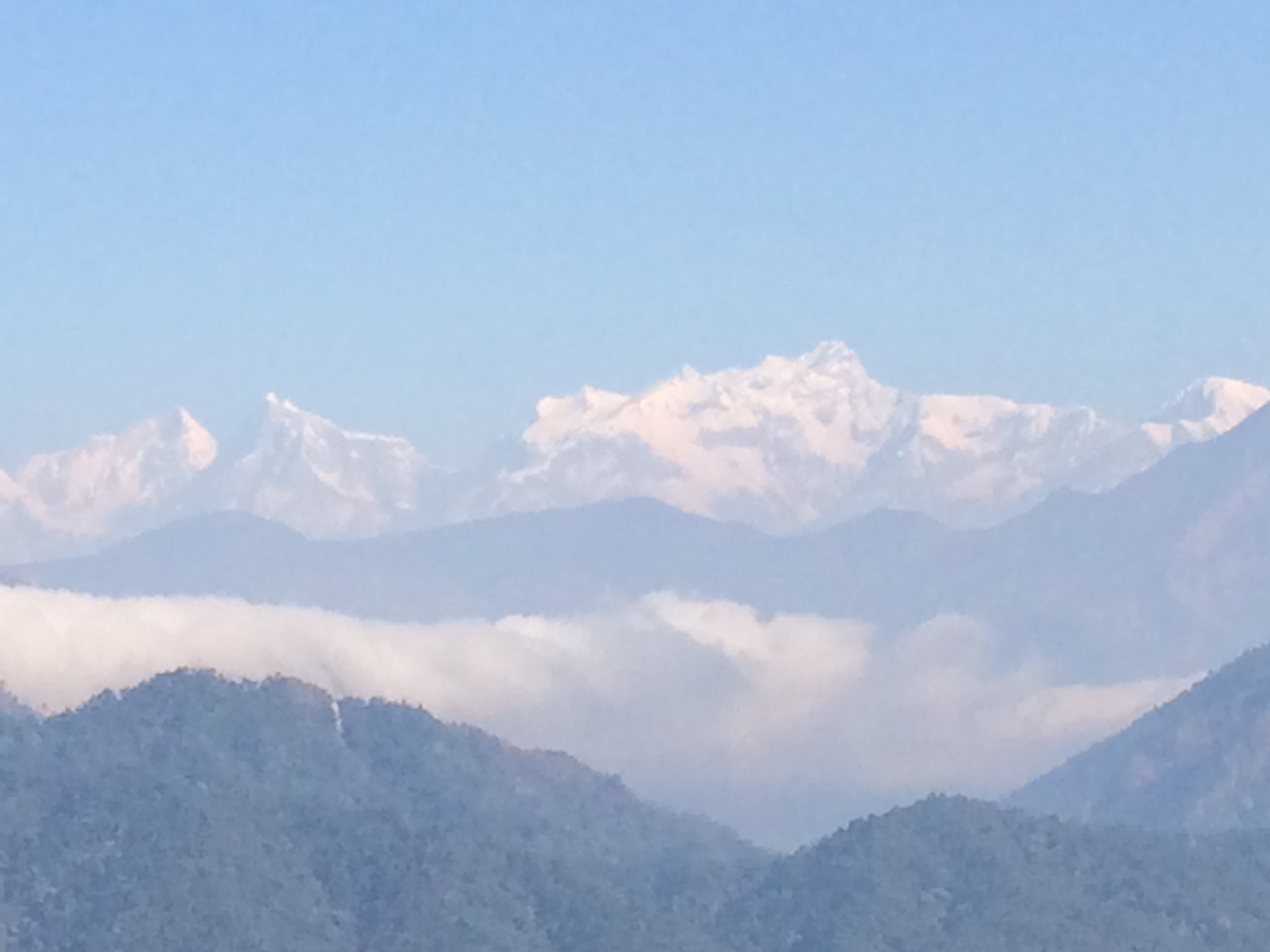 Mt. Manasalu by Minamiasia on Dec. 2014